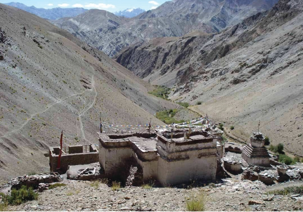 Temple at Sumda Chun - view from backside.